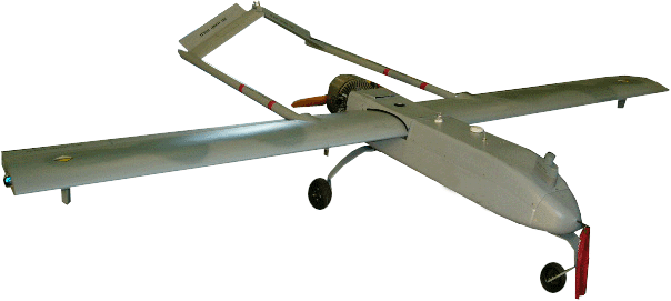 Picture of the shadow I took in Ft Lewis, WA and edited in the gimp